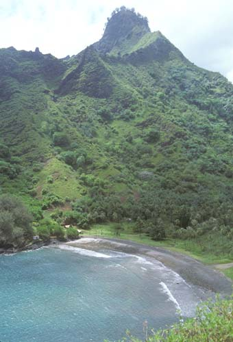 Looking down on Eiaone Bay and valley on the northern coast of Hiva Oa, Marquesas, French Polynesia.